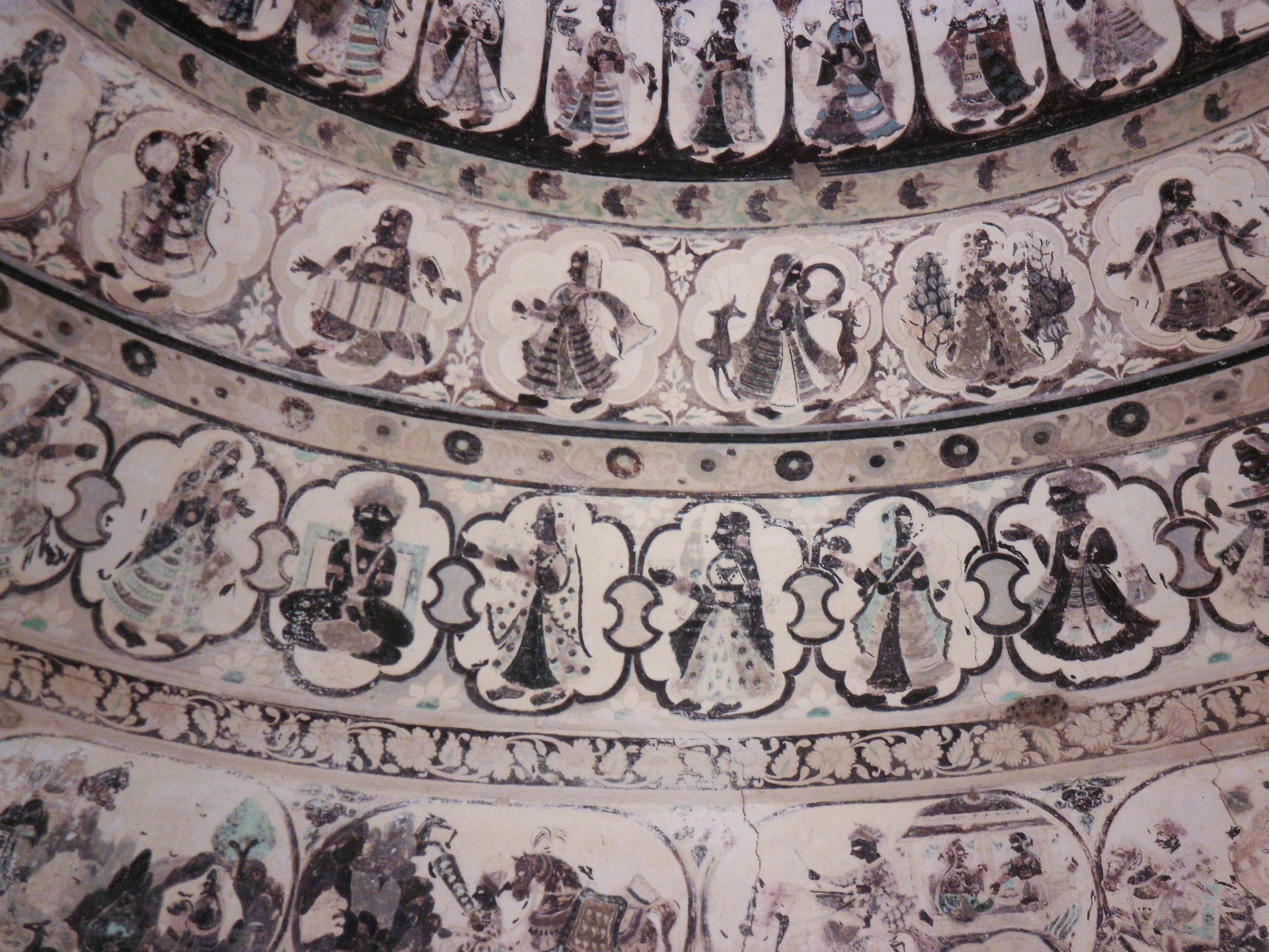 Symbolic & Historical Artwork in Goddi Temple This is a photo of a monument in Pakistan identified as the SD-68